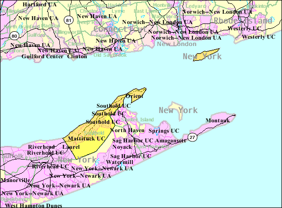 U.S. Census 2000 reference map for Southold